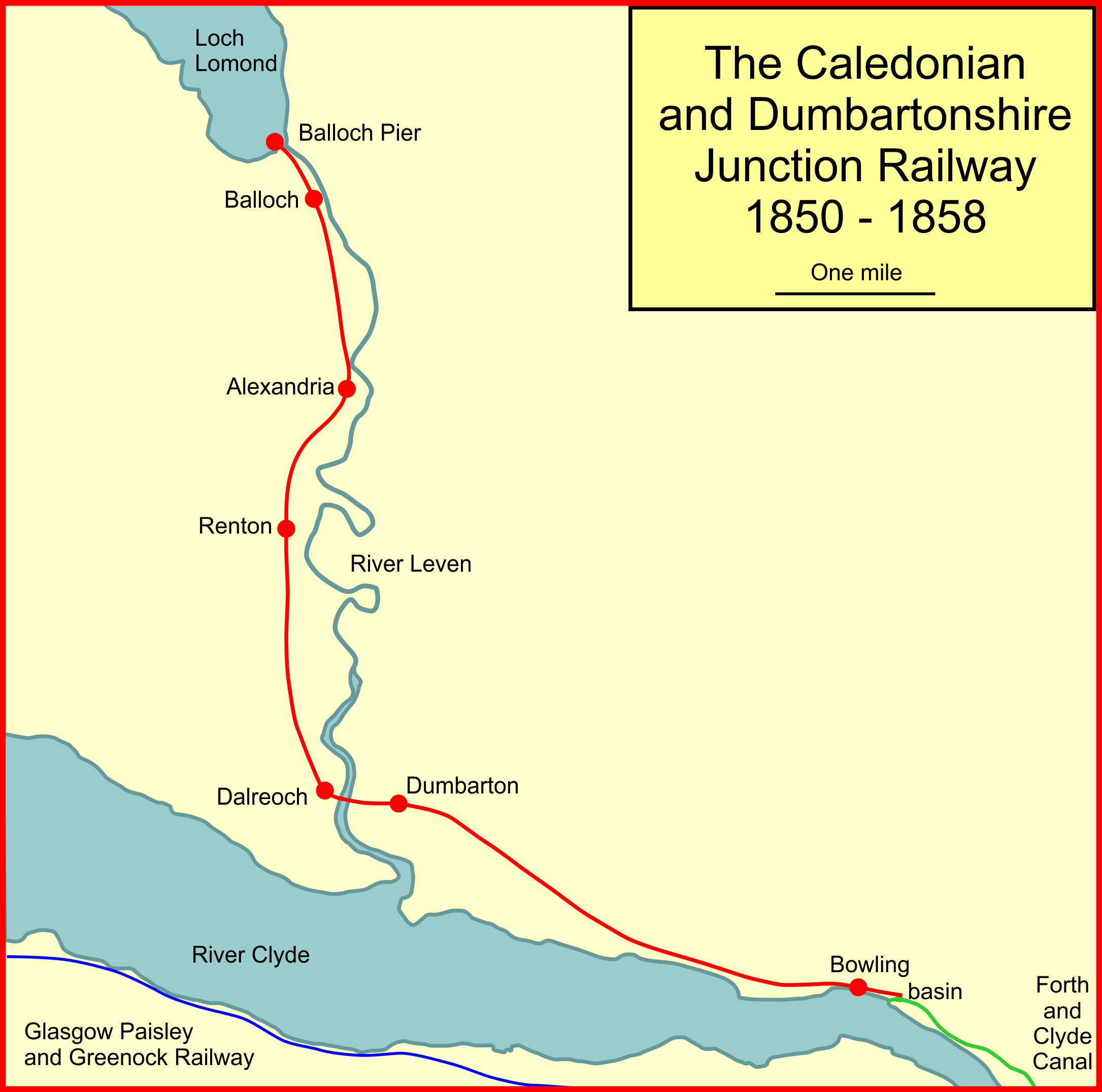 System map of the Caledonian and Dumbartonshire Junction Railway, Scotland